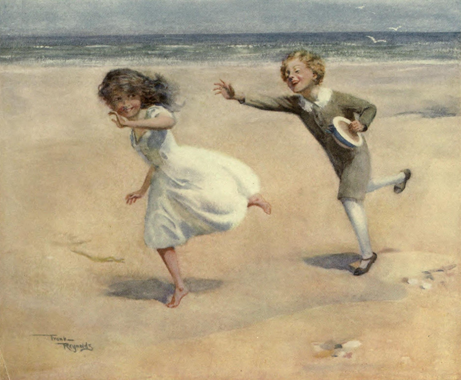 David and Emily, characters in Charles Dickens' David Copperfield.